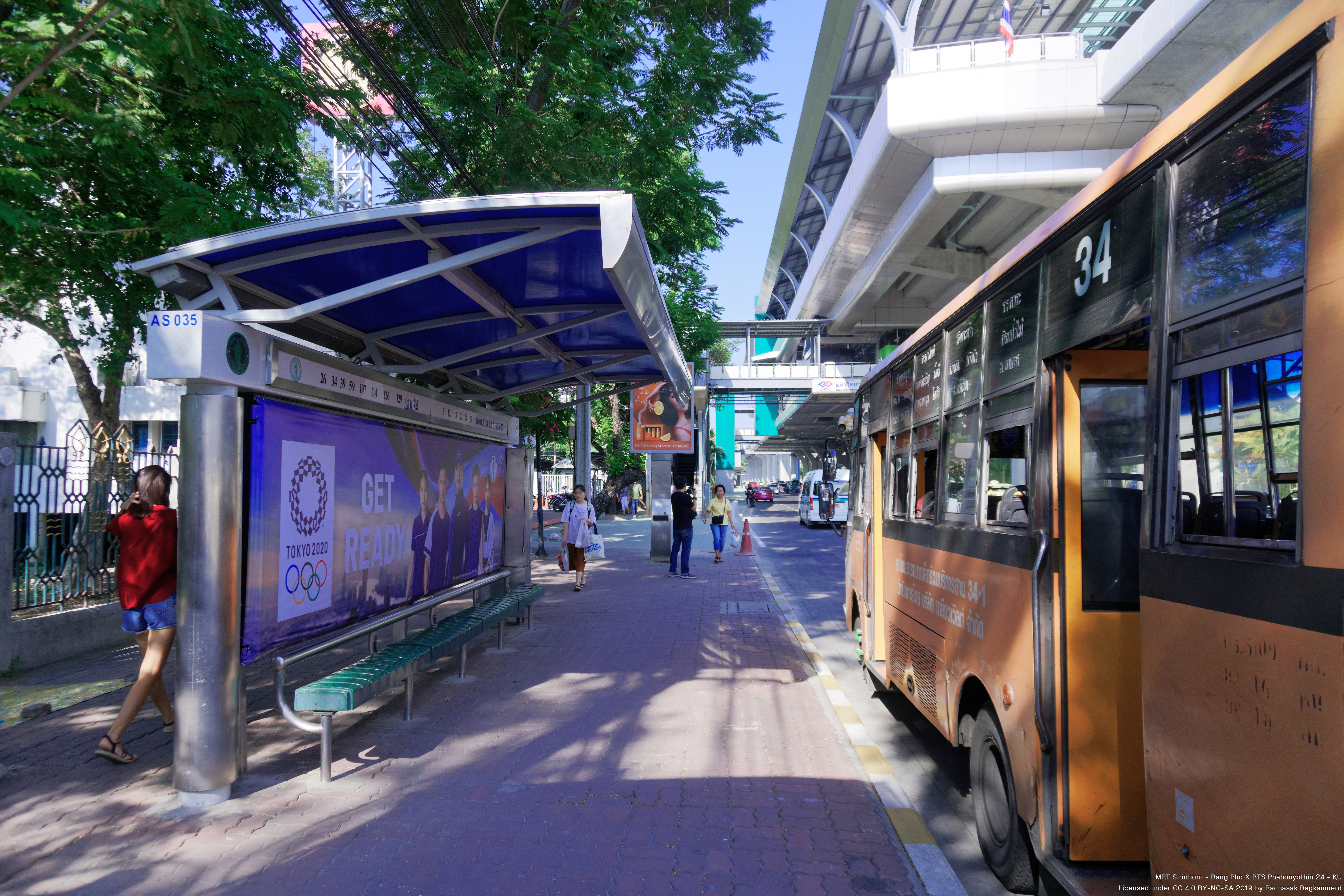 BTS Kasetsart University - KU bus stop with station exit